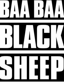 Logo from the television show Baa Baa Black Sheep